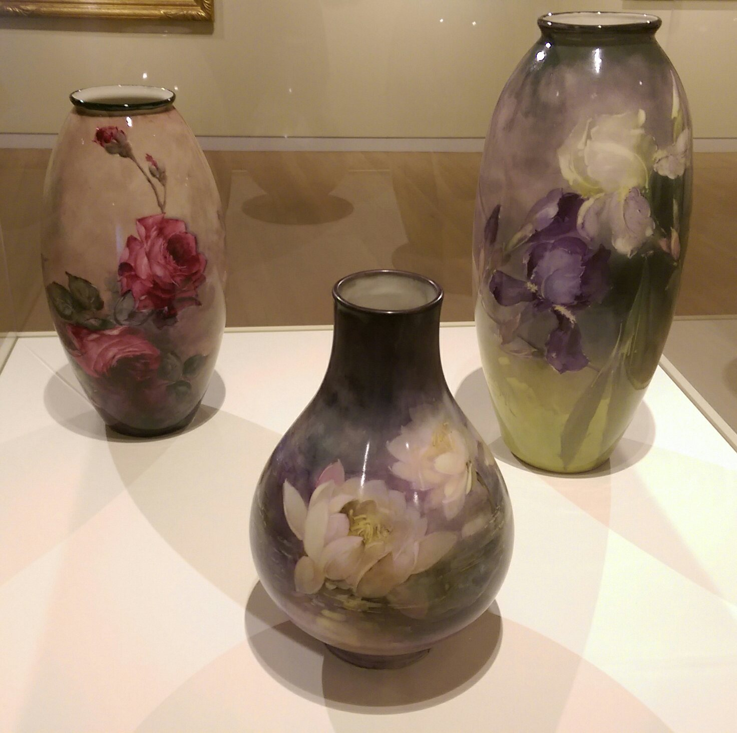 Three vases painted by Franz Bischoff in 1901, 1903 and 1908. Collection of the Crocker Art Museum in Sacramento, California. Photo by Jim Heaphy.